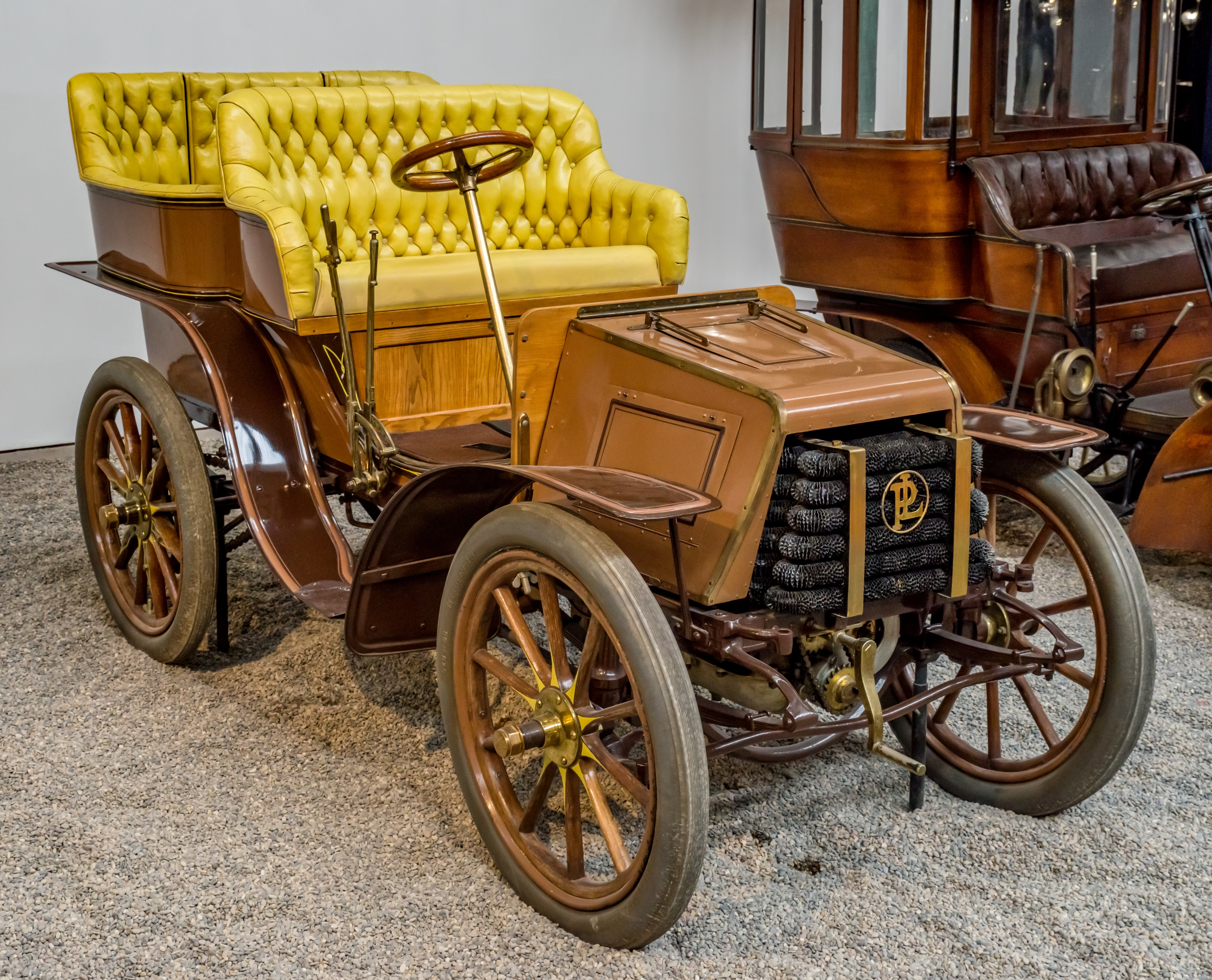 pictures from the Cité de l’Automobile – Musée National – Collection Schlump in Mulhouse, France ptictures from the 10. may 2018